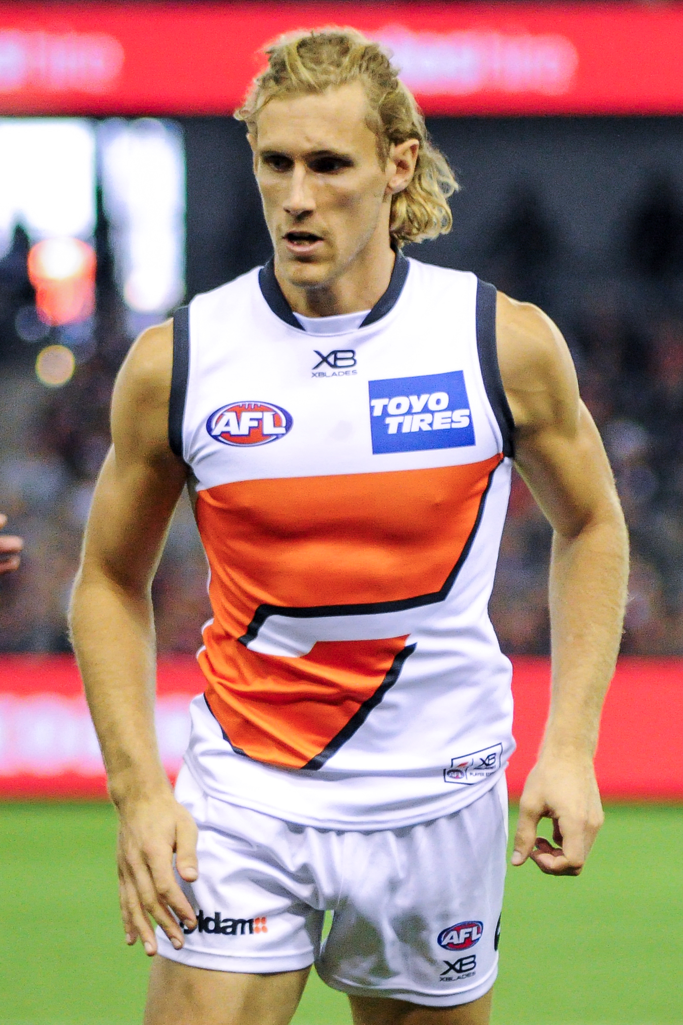 Nick Haynes during the AFL round five match between St Kilda and Greater Western Sydney on 21 April 2018 at Etihad Stadium in Melbourne, Victoria.